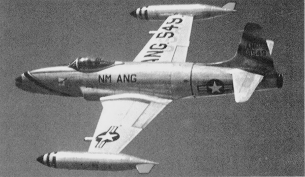 A U.S. Air Force Lockheed F-80B-1-LO Shooting Star fighter (s/n 45-8549) from the 188th Fighter Squadron, New Mexico Air National Guard in flight.